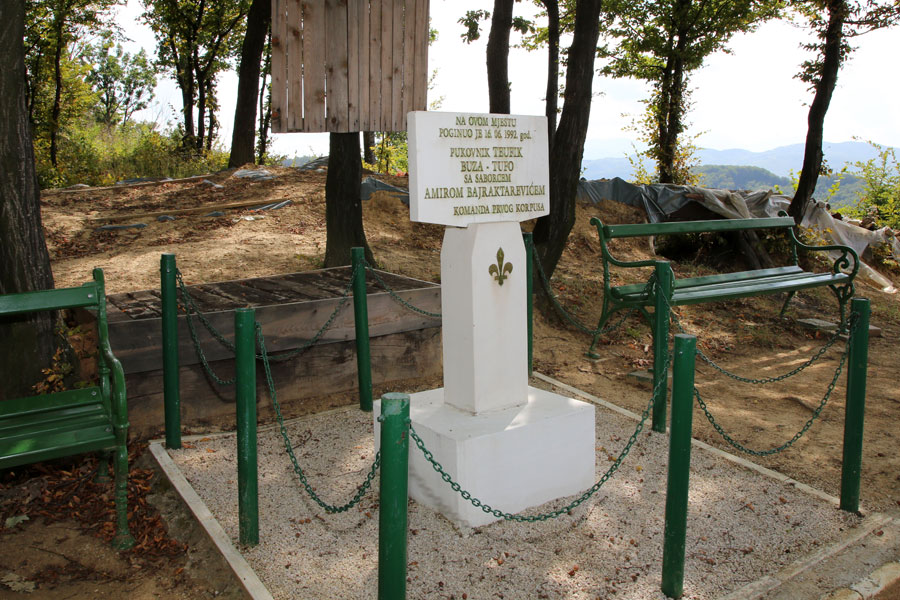 Teufik Buza, Bosnian War, Visoko